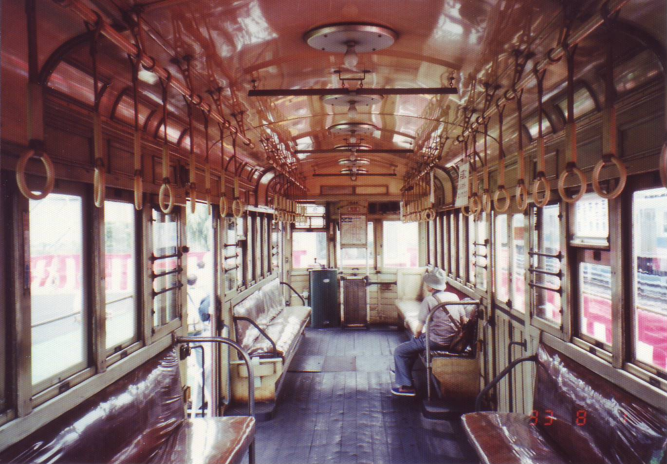 Interior of Osaka City Tram #1644. taken in 1993.